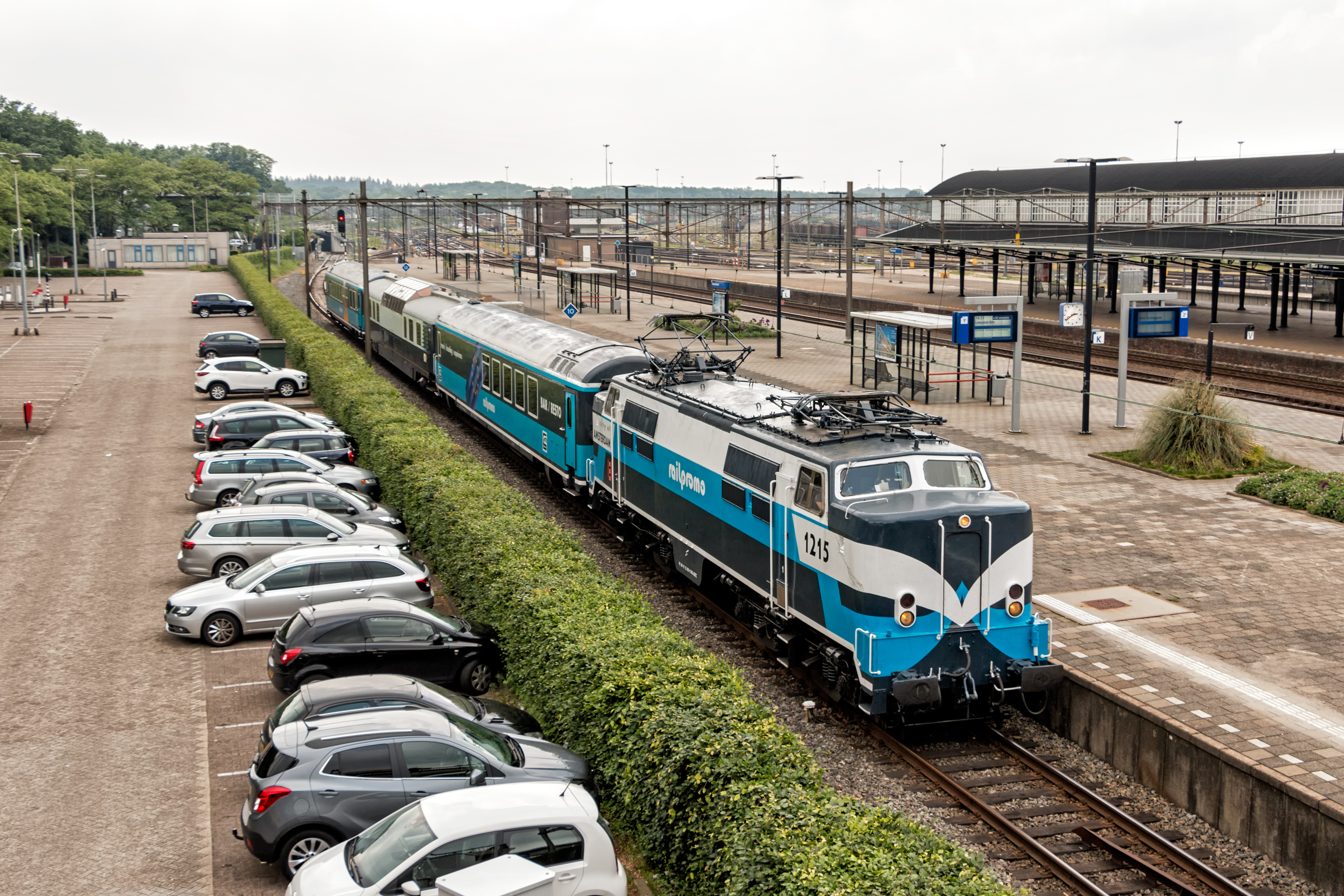 Railpromo 1215 met Panorama Rail Restaurant te Amersfoort, 28 mei 2016